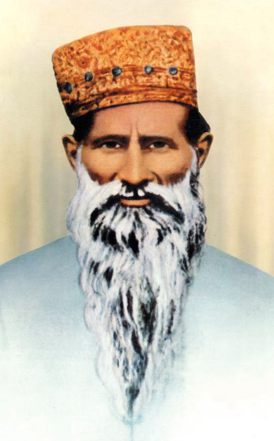 Artificially coloured photograph of Shiv Dayal Singh (founder of Radha Swami Mat)